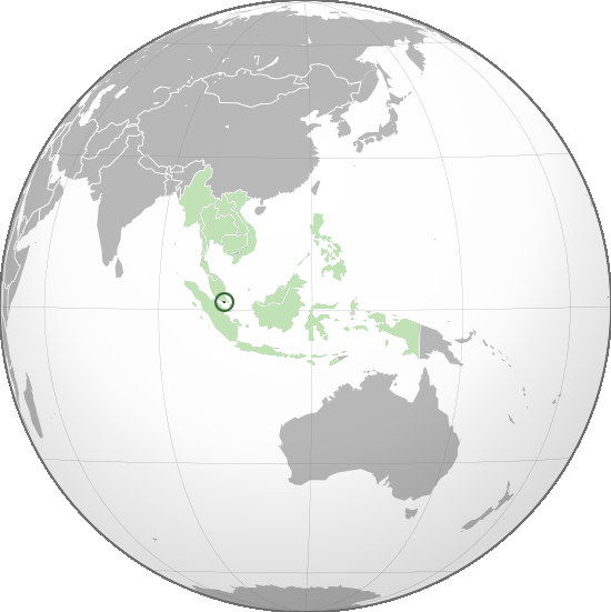 A map superimposed on a globe showing the location of Singapore (red dot) in relation to other countries in the Association of Southeast Asian Nations (ASEAN).